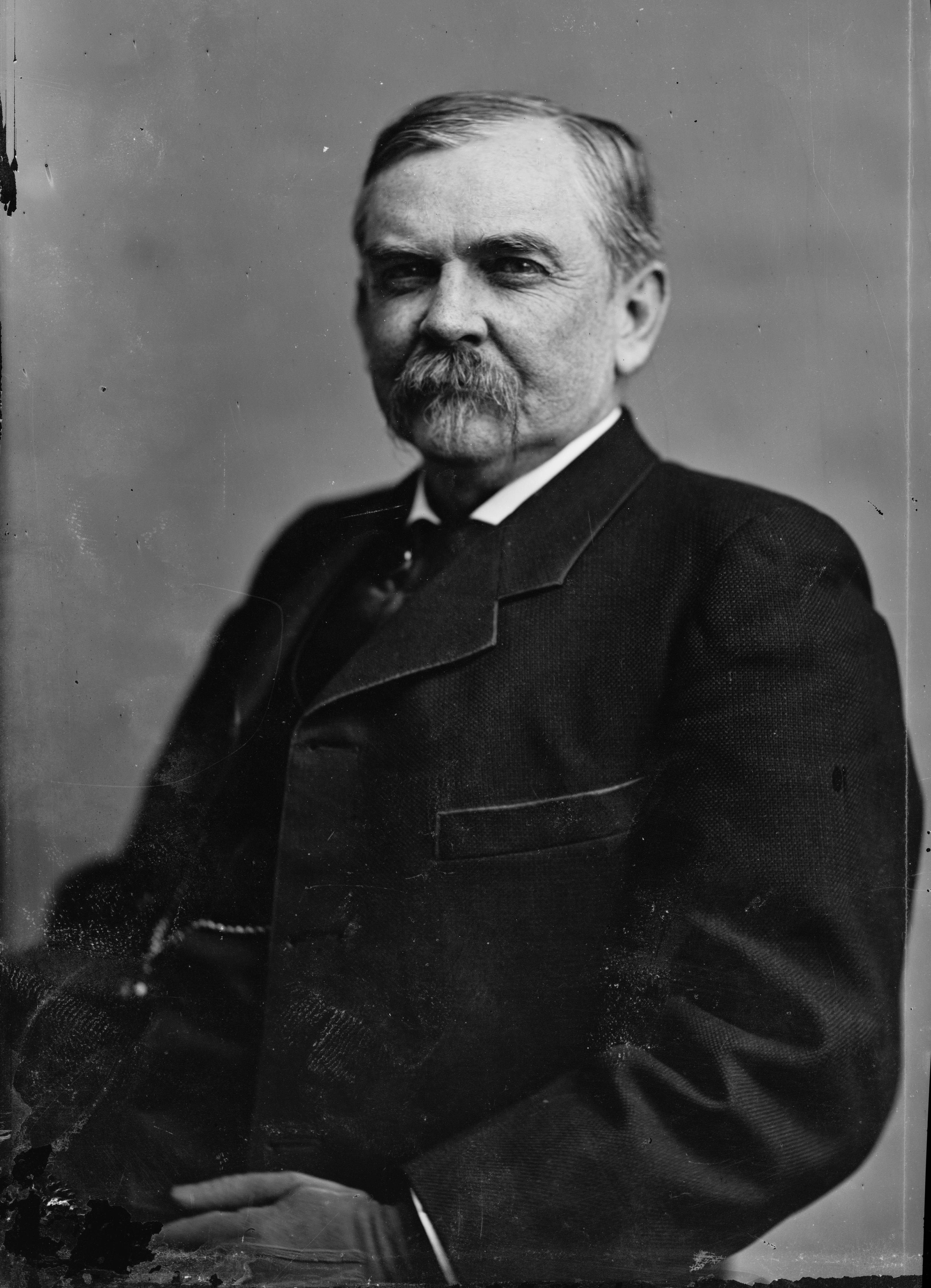 George Graham Vest. Library of Congress description: "Vest, Hon. of MO. (Senator)".